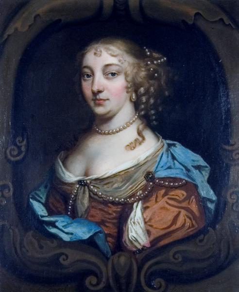 Portrait of Winifred, Countess of Coventry (d. 1694), sister of Sir Richard Edgcumbe (1639-1688)